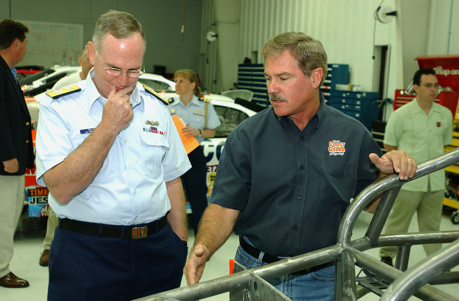 Description: CHARLOTTE, N.C. (May 28, 2005) Adm. Thomas Collins is shown the frame of a Team Coast Guard race car by Terry Labonte at the Hass CNC Racing facilities. USCG photo by PA1 Barry Lane Slug 050528-C-4512L-103 (FR) Location CHARLOTTE, North Carolina United States Special Instructions 050528-C-4512L-103 (FR) Object Name COAST GUARD NASCAR (FOR RELEASE) Credit US COAST GUARD DIGITAL Server Name cgvi.uscg.mil:80 PLS ImageID 246388 Picture Desk ImageID 05A44 Committed Yes (Platter 6B) Database Photo